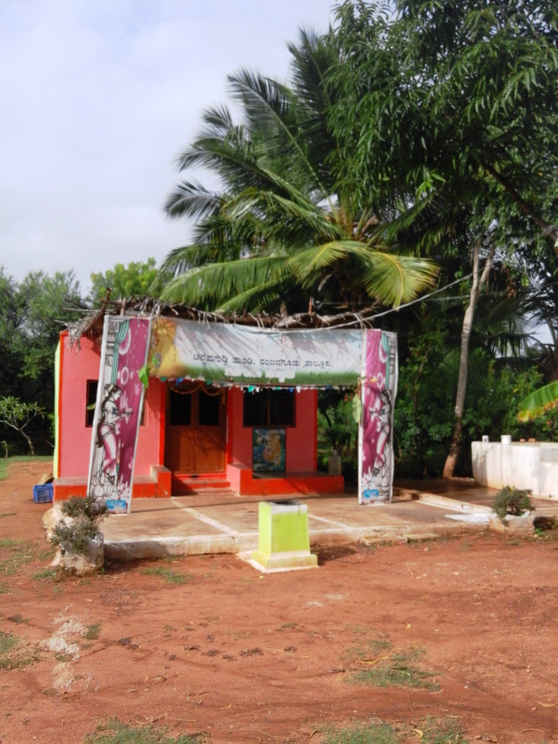 Chinnadagudihundi village, Nanjangud Taluk, Mysore district, Karnataka state, India.